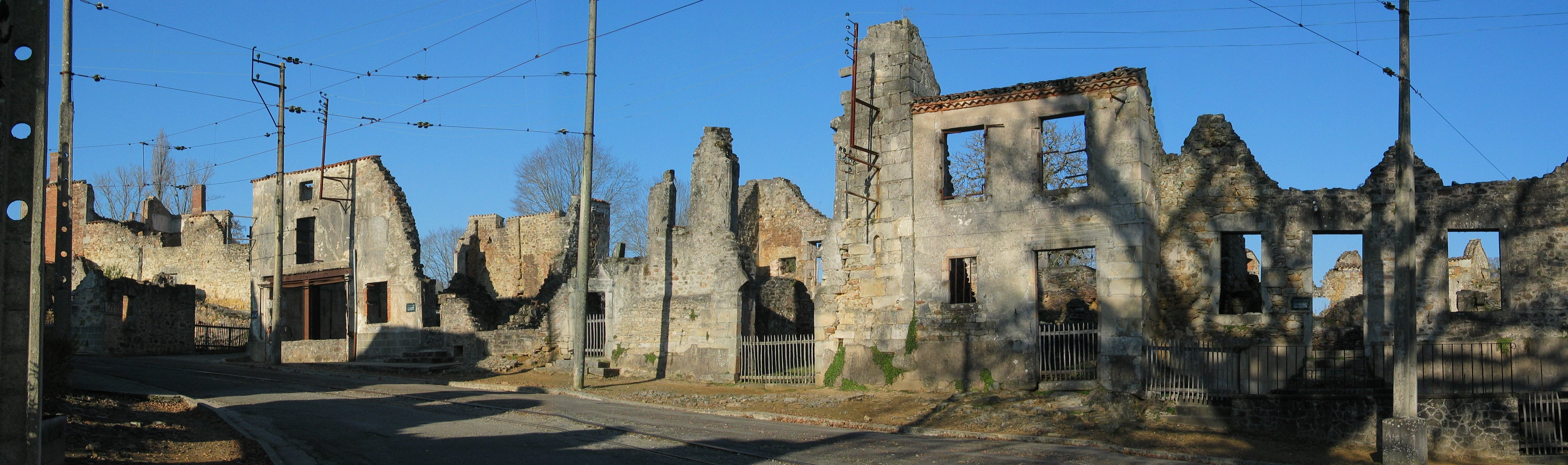 Main street of the former village (la Cité Martyre), ESE view taken near the church. Oradour-sur-Glane, Haute-Vienne, France . .